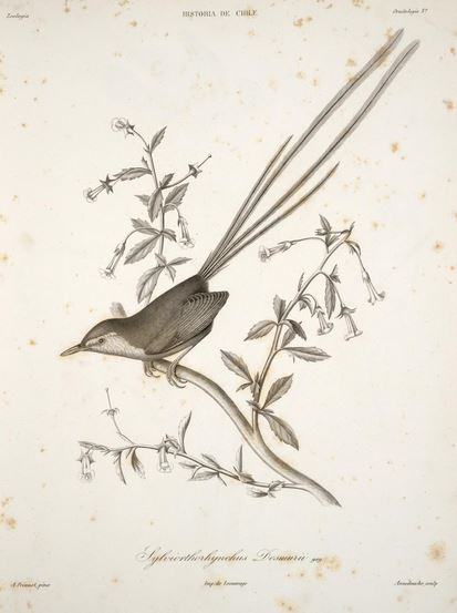 Sylviorthorhynchus desmurii